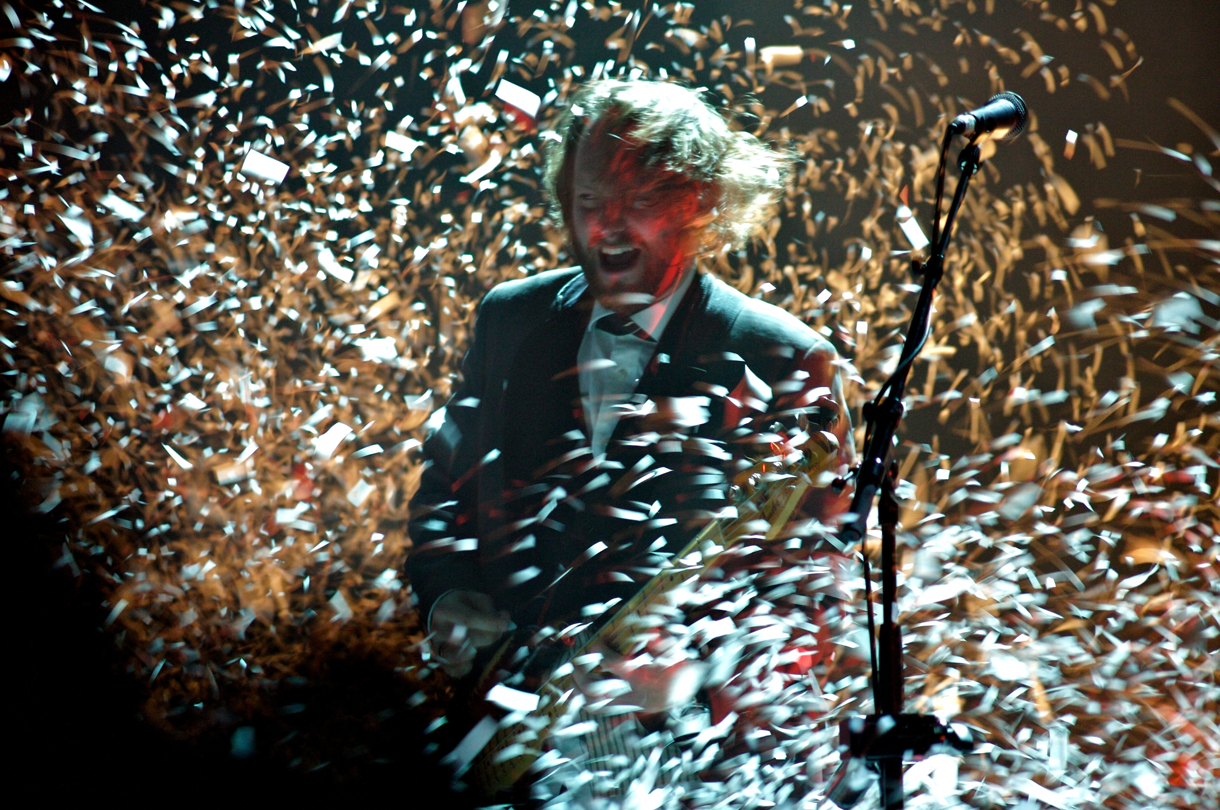 Georg Hólm, bassist of Sigur Rós, performing "Popplagið" in Laugardalshöllin, Reykjavík, Iceland. 23 November 2008.